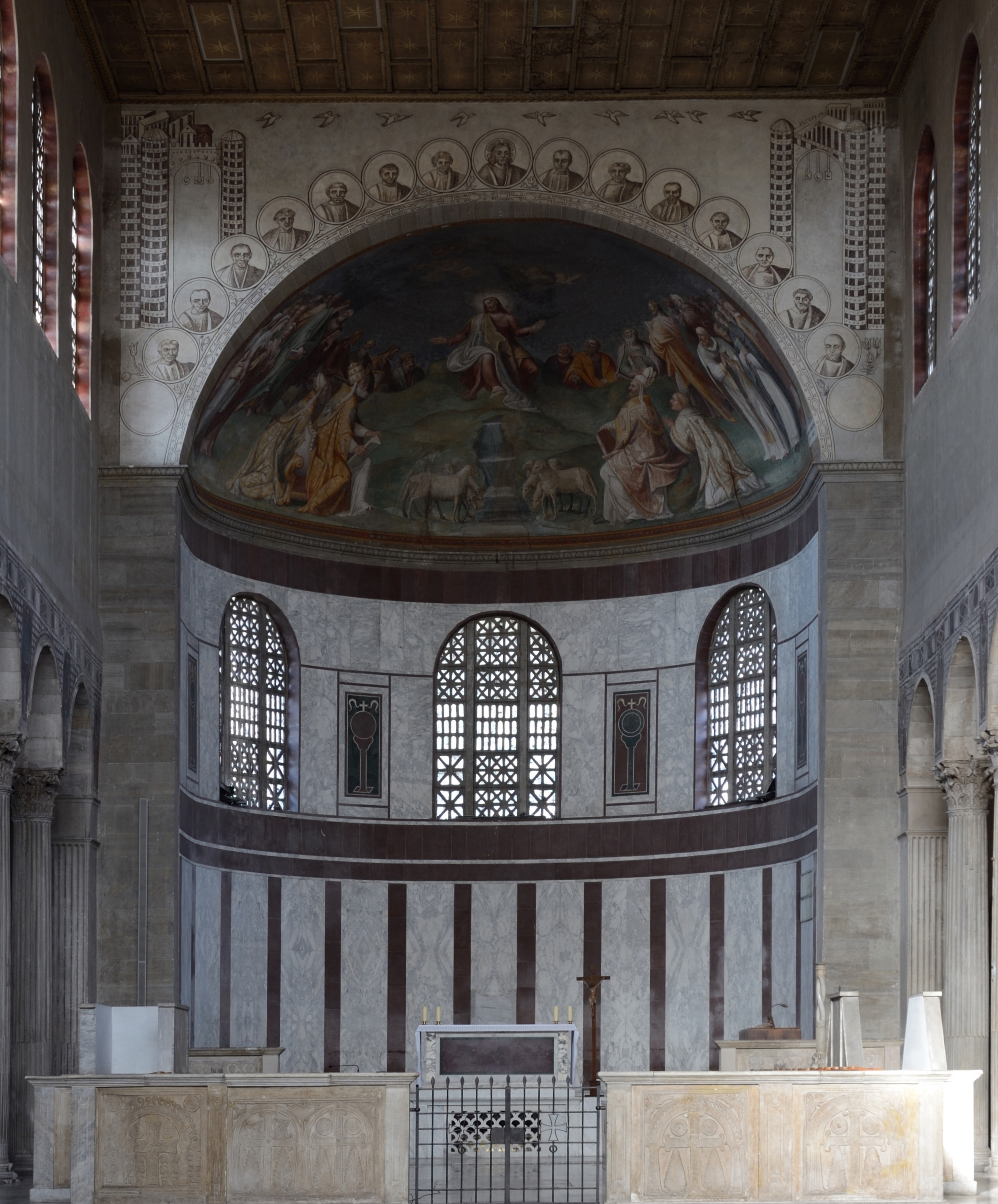 Santa Sabina (Rome) - Altar